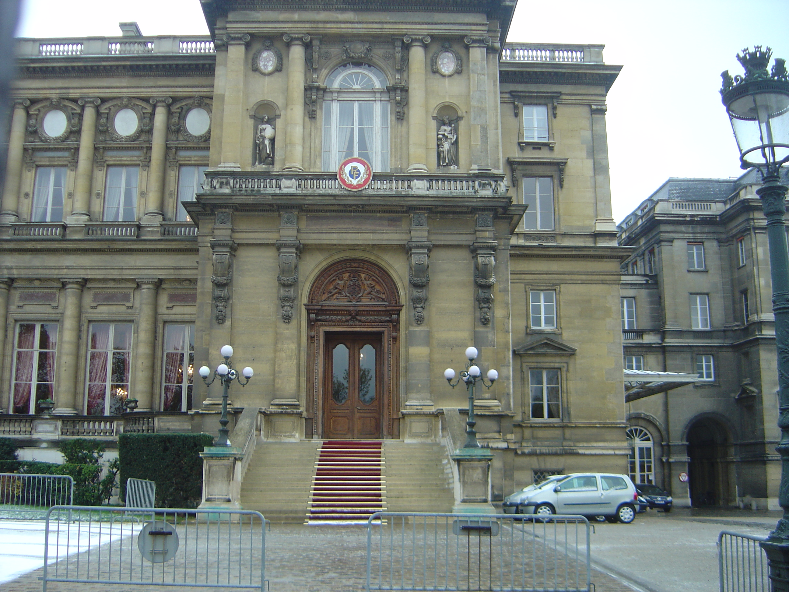 The Ministry of Foreign Affairs at the Quai d'Orsay in Paris, France